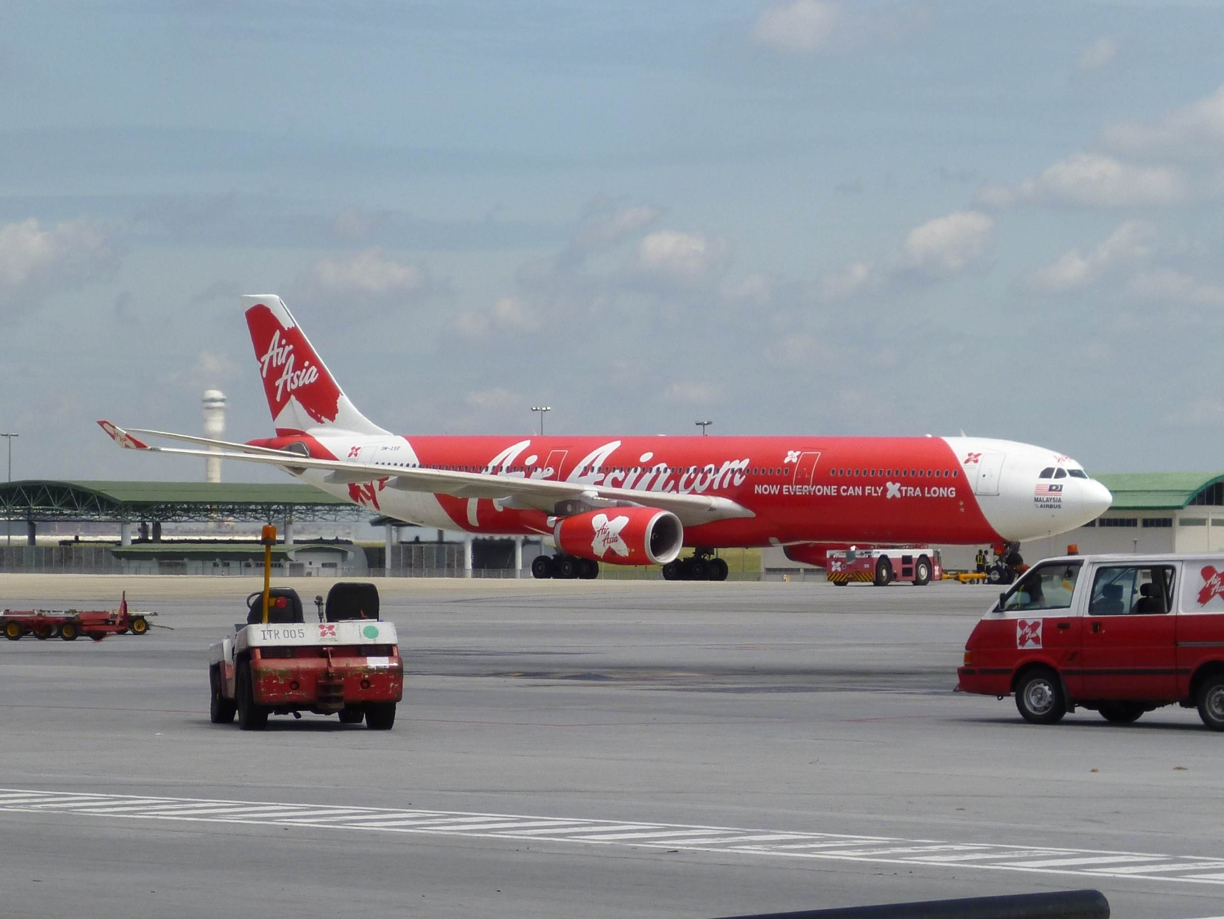 A330 Air Asia X at Kuala Lumpur Airport May 2013